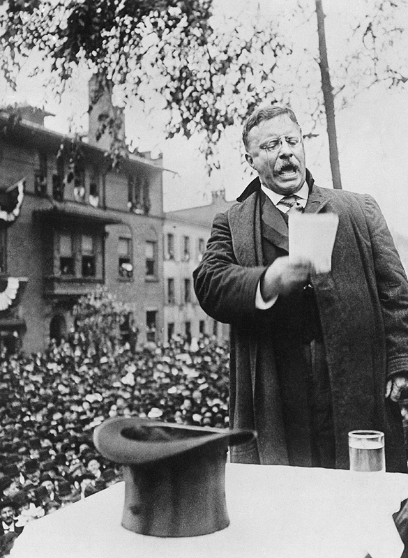 Theodore Roosevelt campaigning for President, 1912.